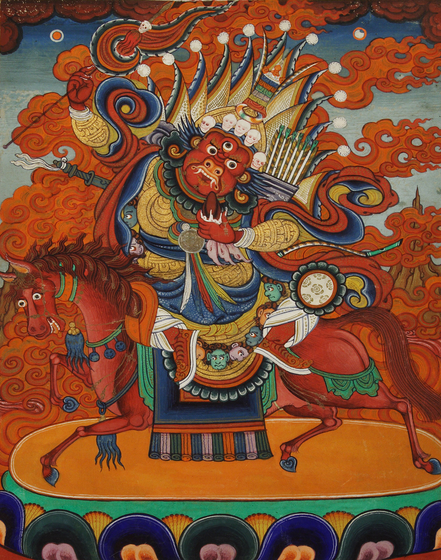 Begtse, Protector of Mongolia and Mongolian Buddhism